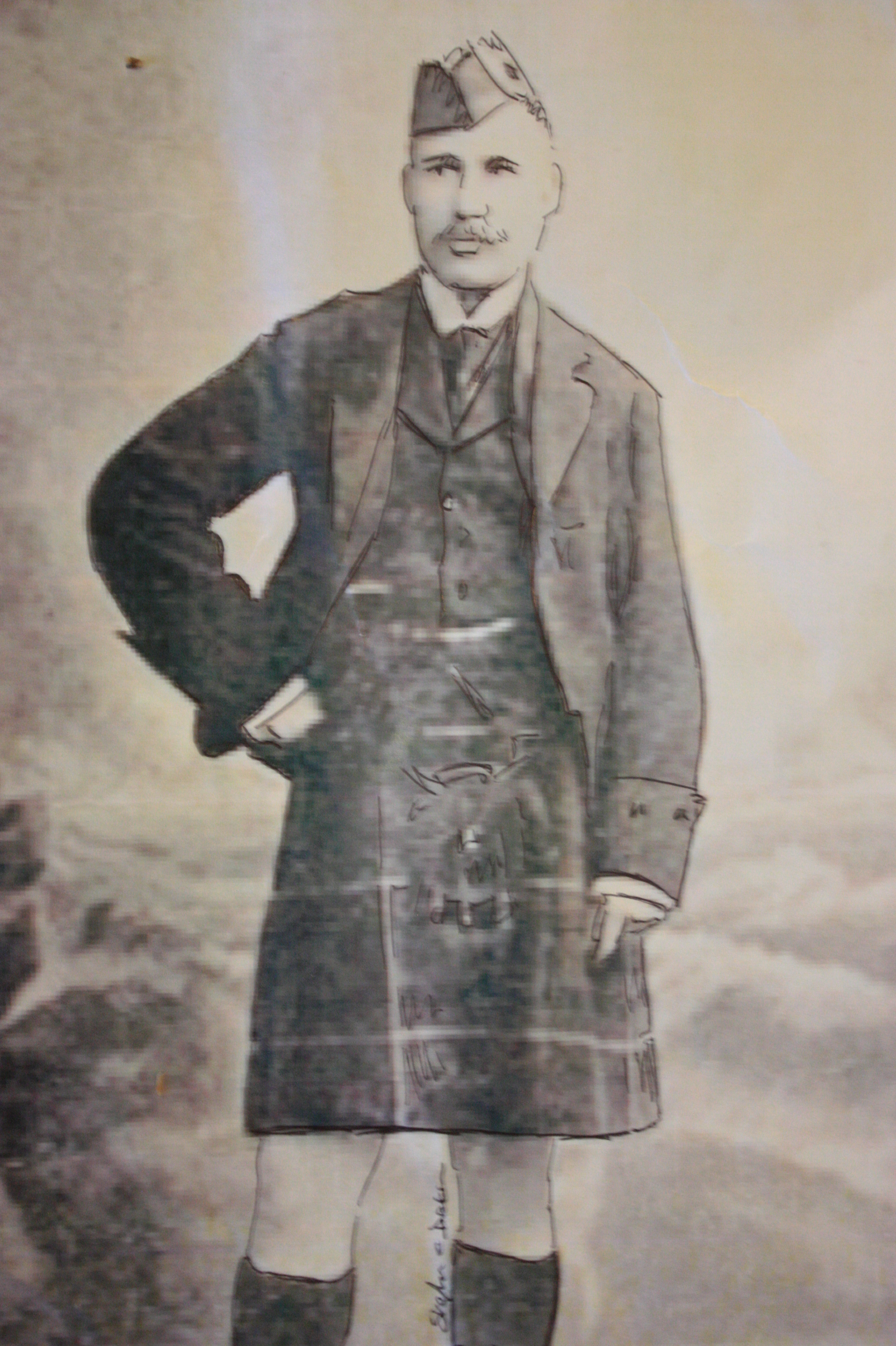 John Hay Forbes in 1896